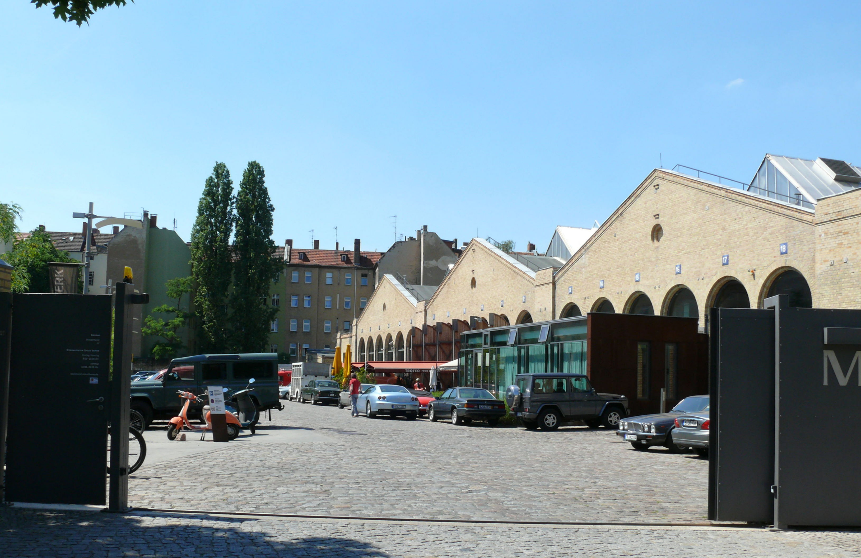 Berlin-Moabit Wiebestraße Meilenwerk